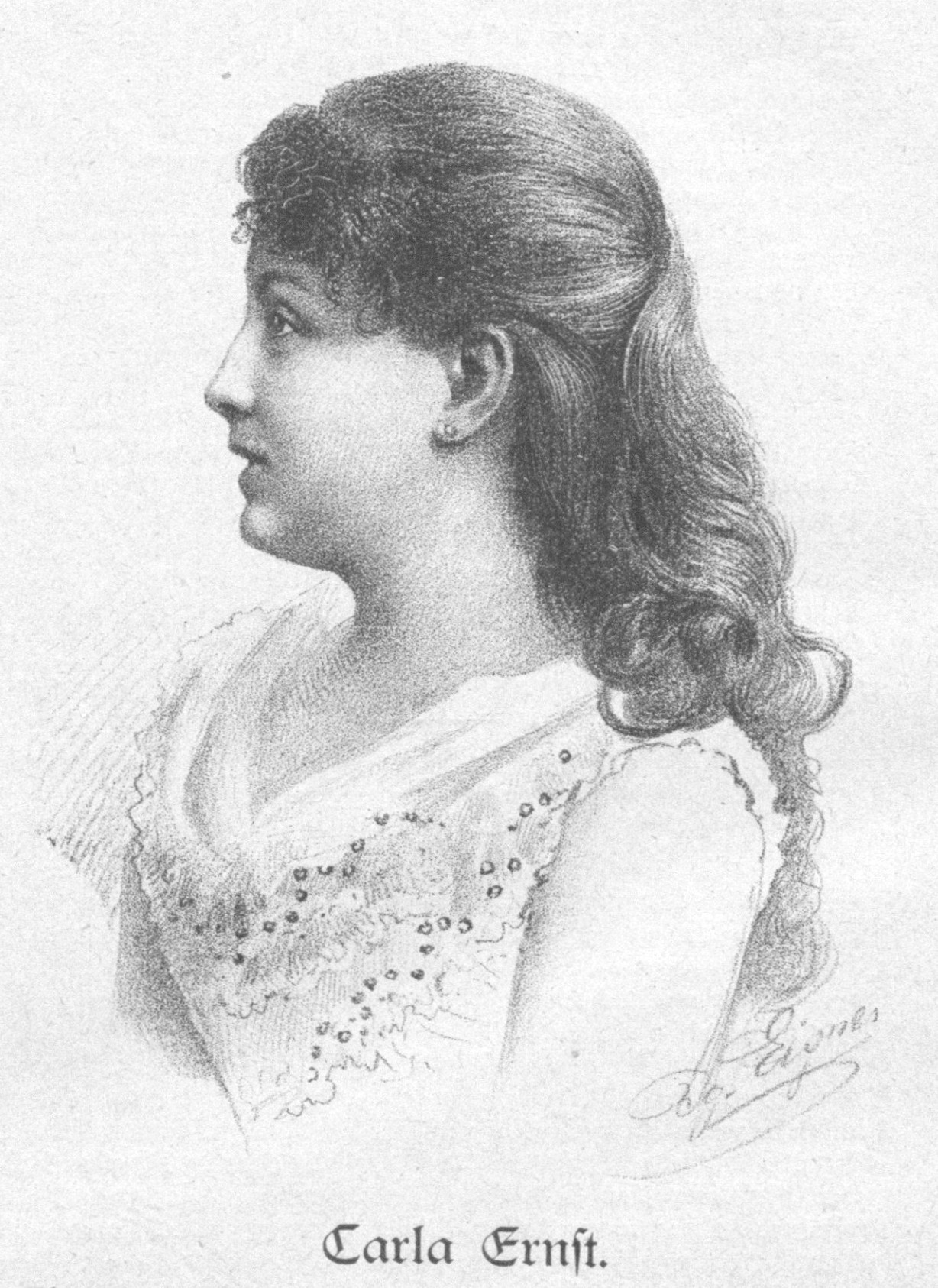 Portrait of Carla Ernst (1869-??), Austrian actress.